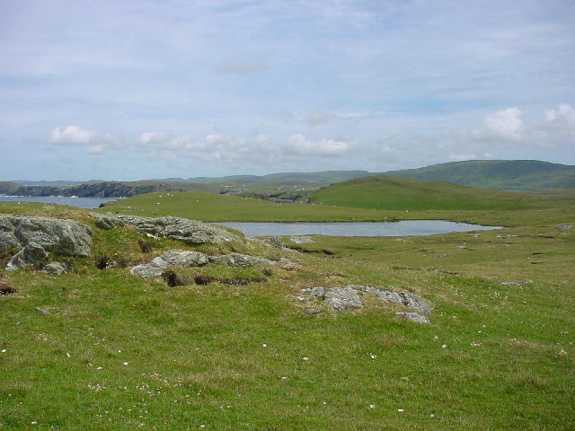 West Burra landscape with Shetland Mainland in the background, Shetland, Scotland